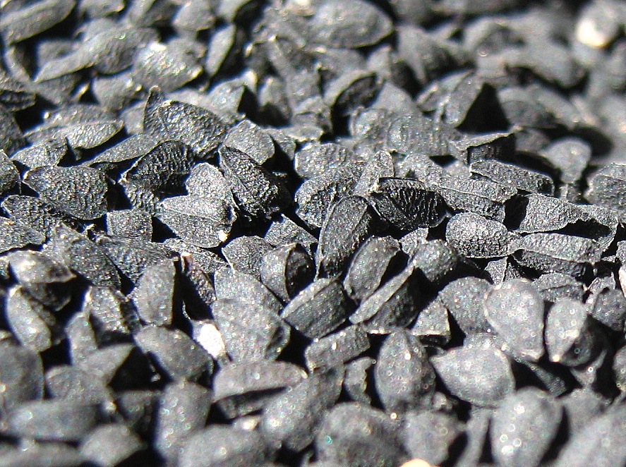 Nigella sativa: Seeds.